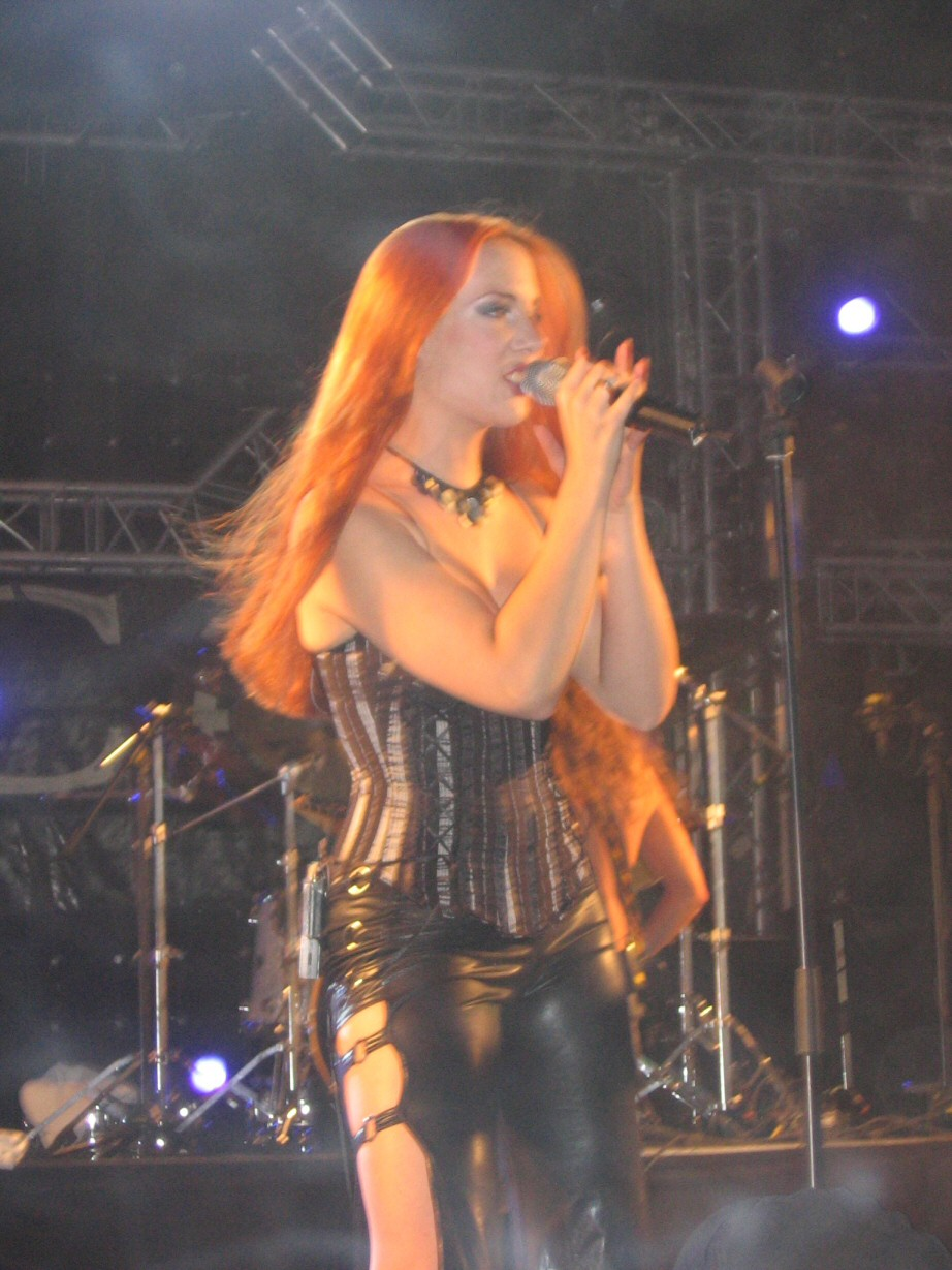 Simone Simons, the lead singer of Dutch heavy metal group Epica, performing at Tuska Open Air Metal Festival 2006.